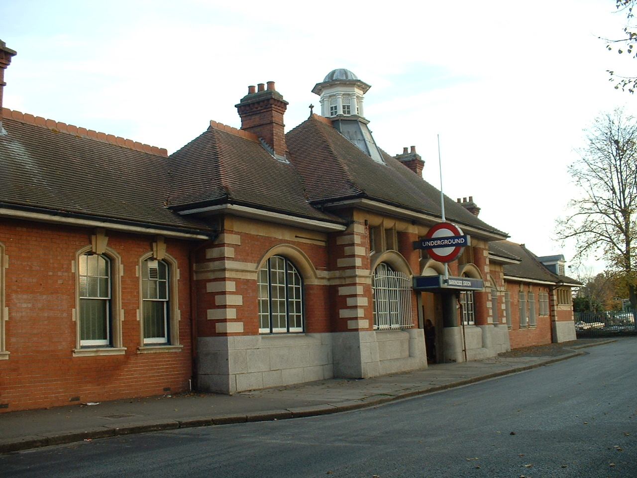 Barkingside station building, opened 1903 by the GER